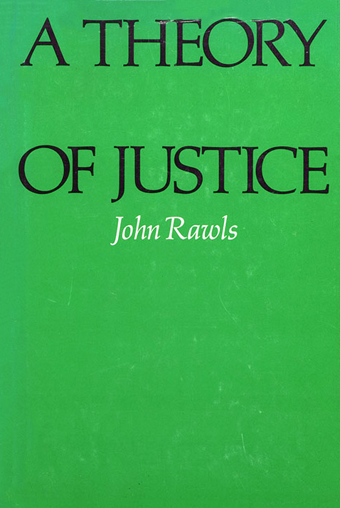 Dust jacket cover of the first hardcover edition of A Theory of Justice (1971), by American political philosopher John Rawls.